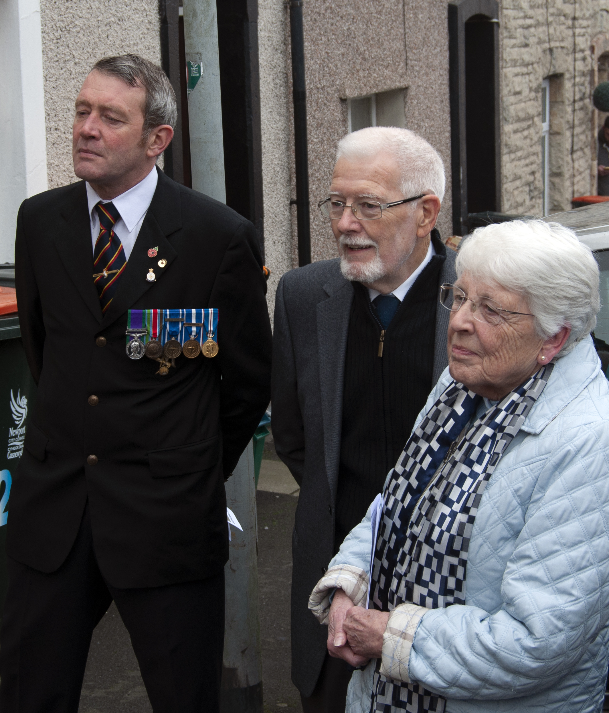 Ian Brewer with wife and son